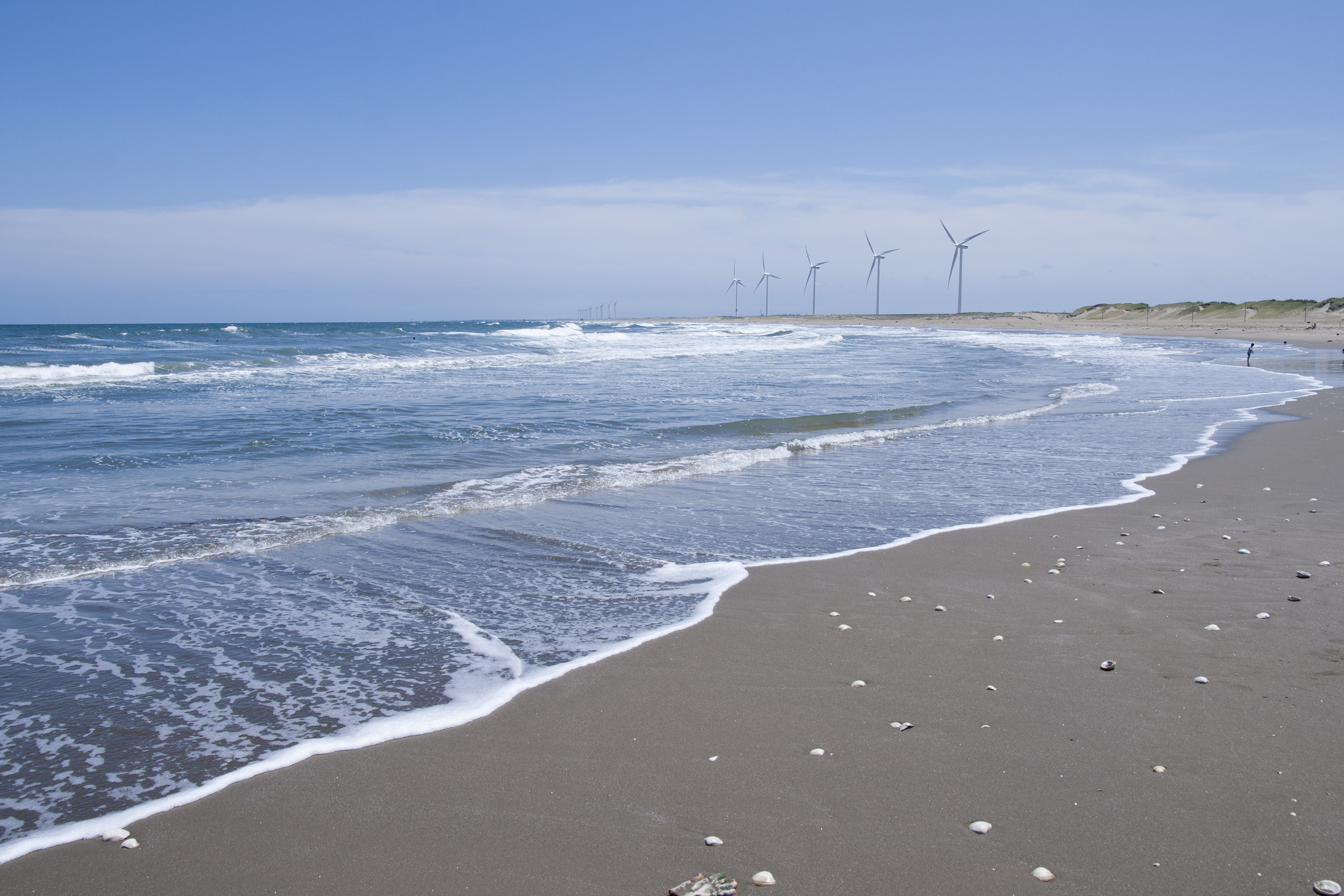 Nikkawa Beach, Kamisu City, Ibaraki Pref., Japan